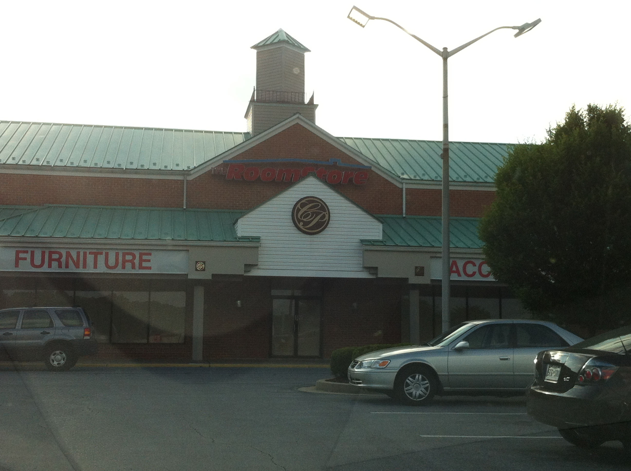 Shows a franchise of the Room Store, one of the last remaining